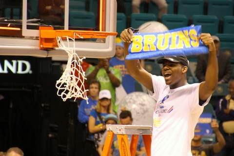 Tony Parker of UCLA Bruins cutting the net after the team won the 2014 Pac-12 Tournament